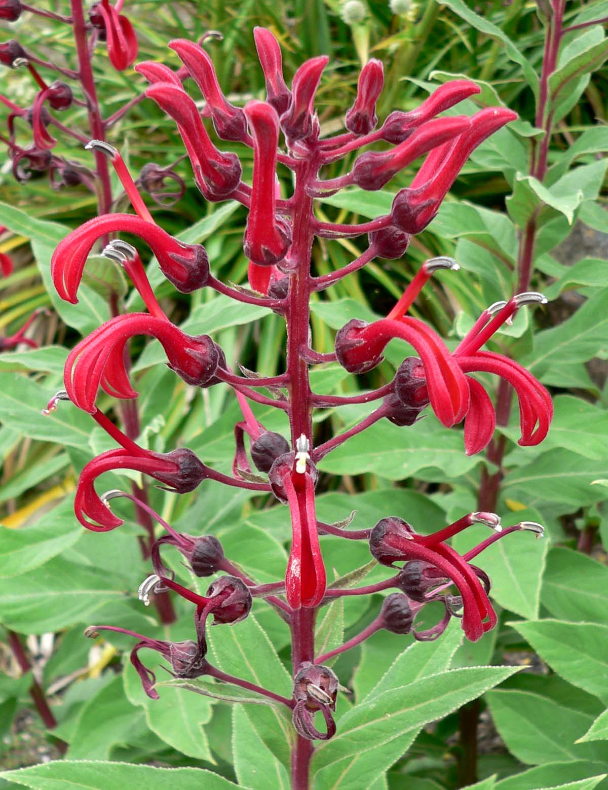 Photo of Lobelia tupa at the UBC Botanical Garden